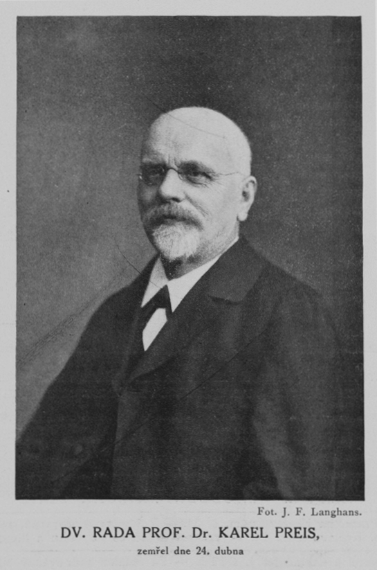 Portrait of Karel Preis (1846-1916), Czech professor of chemistry.